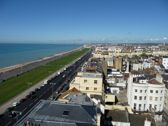 Sea front view of Hove from top of building in Brighton